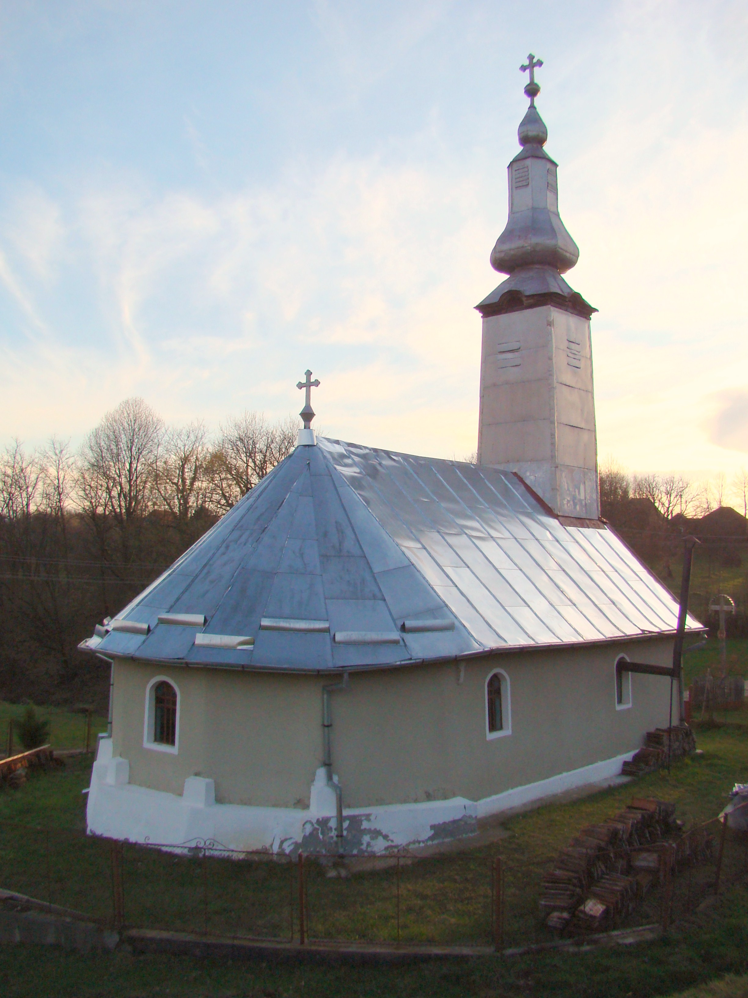 Wooden church in Valea Mare, Arad county, Romania